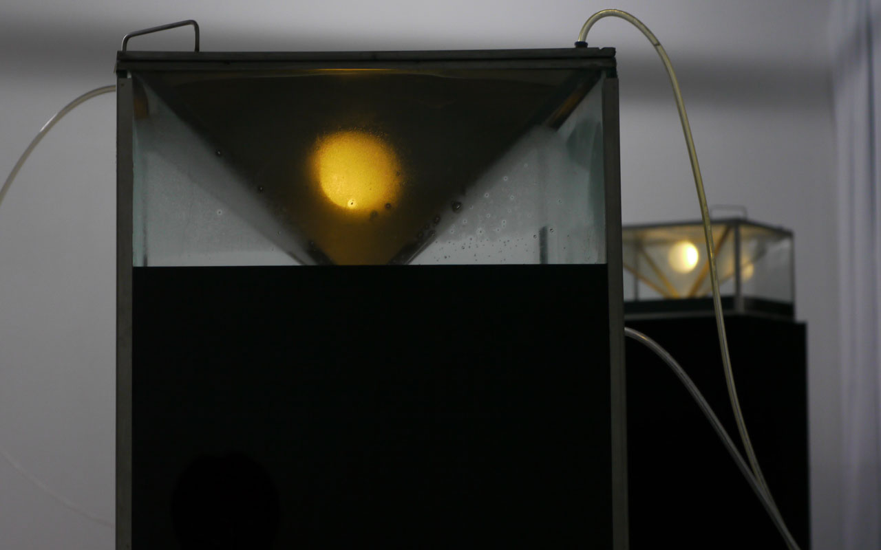 View of artwork 'Distilling Kwun Tong' 2009